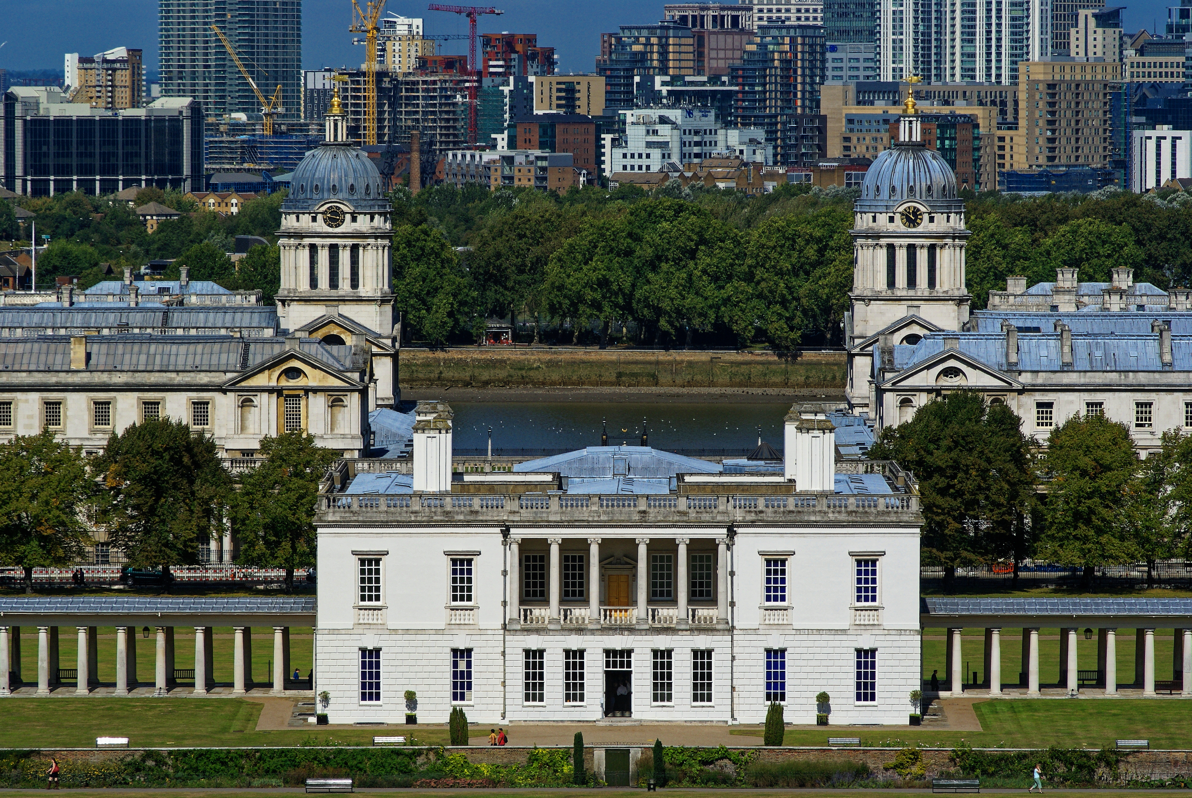 Greenwich Park - Blackheath Avenue - View NNW on Queen's House 1617 Inigo Jones & Greenwich Hospital 1712 Sir Christopher Wren